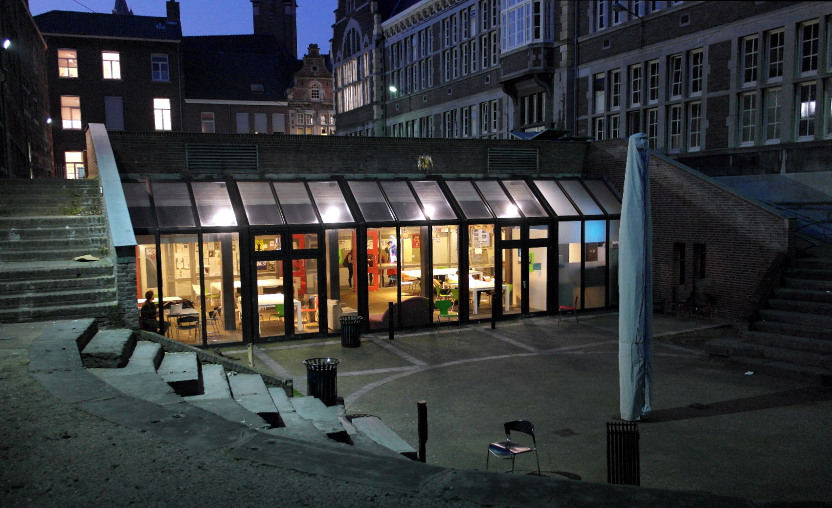 Maastricht, the Netherlands. View of the subterranean courtyard building and the open air arena of the Academy of Dramatic Arts (Toneelacademie).